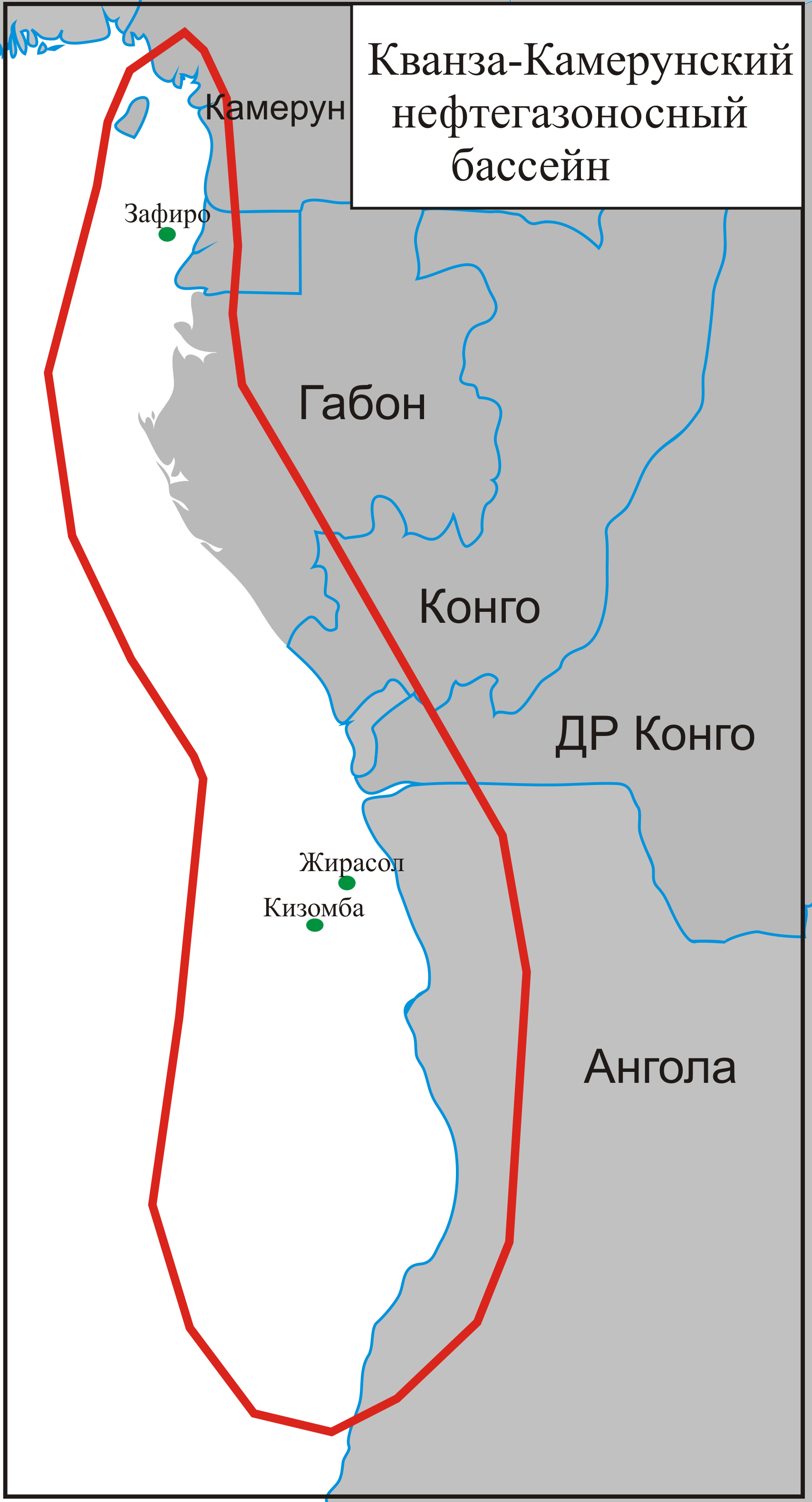 Map of West coast of Africa oil field